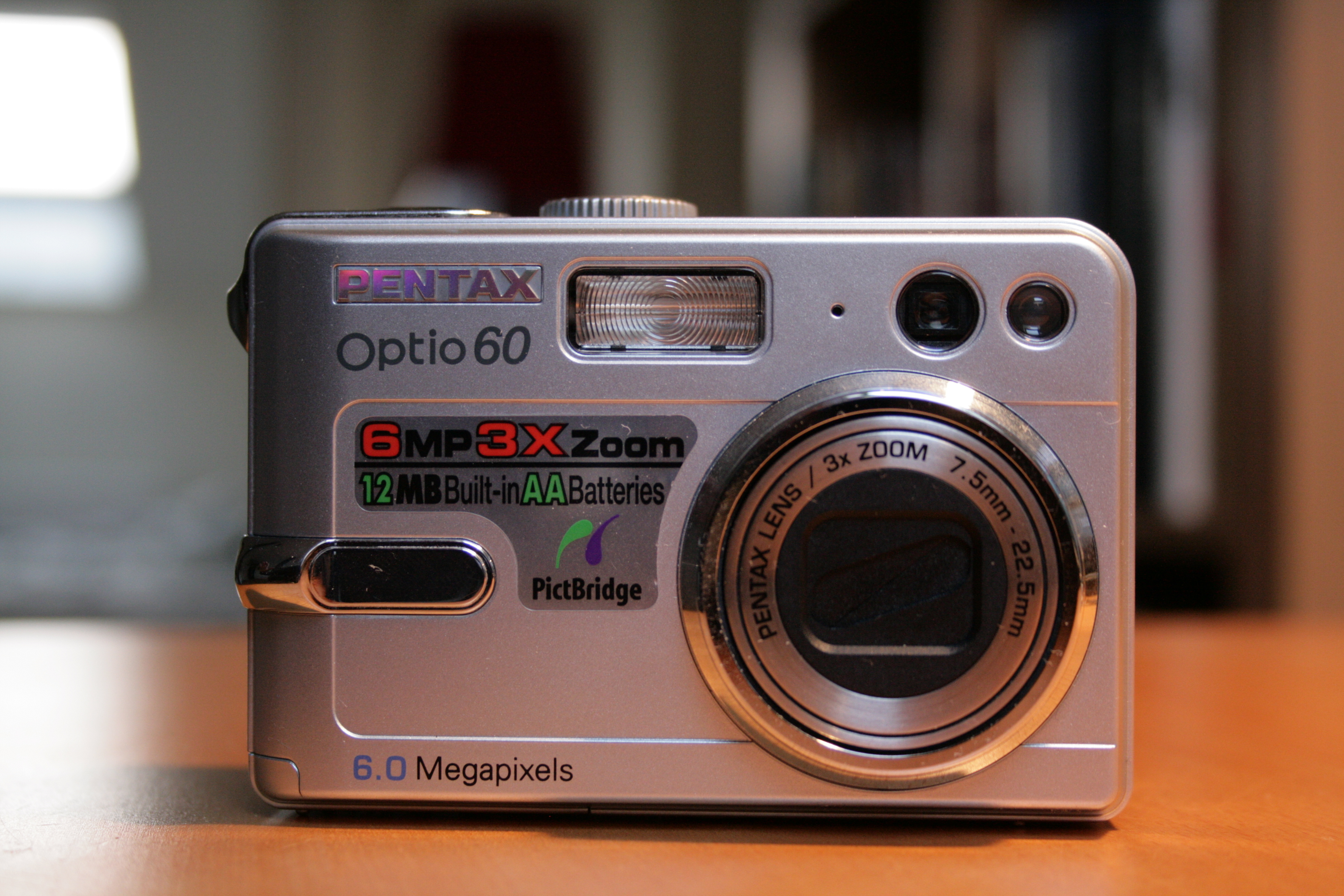 Pentax Optio 60 (not the similar Optio S60 which has an AF illuminator)